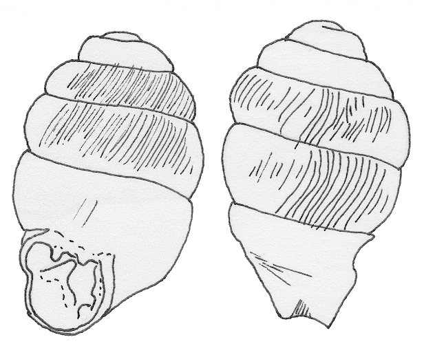 Vertigo angustior - Pulmonate landsnail shell; Holocene deposits outcrop Eben Emael, Jekerdal, Belgium